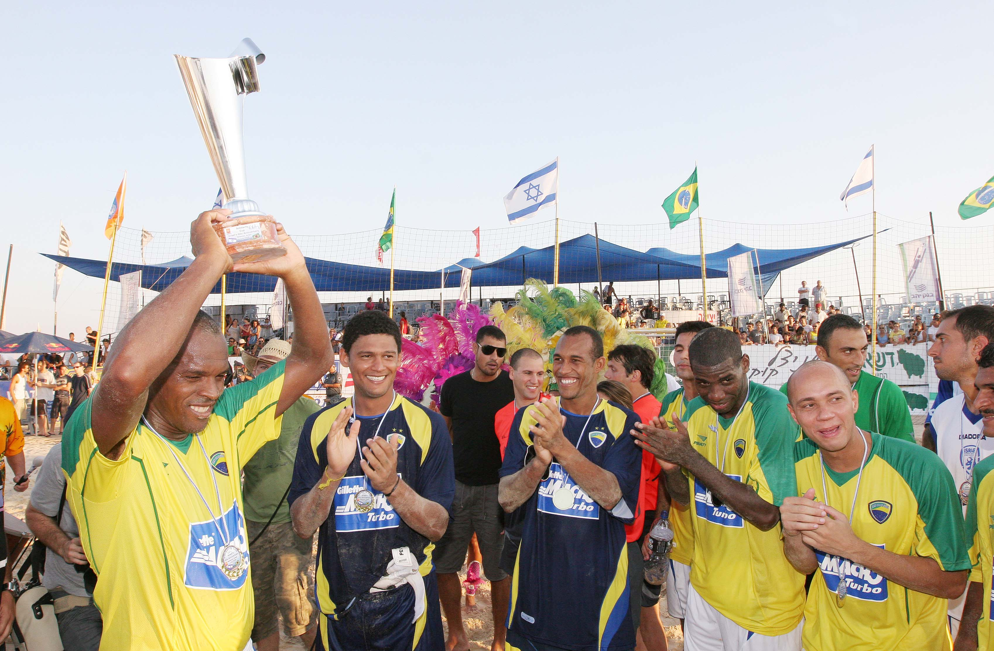 Photo from the friendly match (called the Solidarity Cup) between the Israeli and the Brazilian beach soccer teams, that occured on 11 July 2008, at the Poleg beach in Netanya. The game was played to note 60 years of Israeli independence.